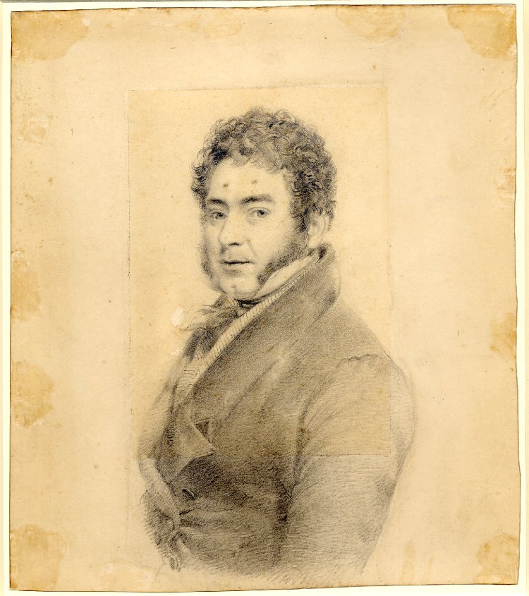 Self portrait of the artist, by the British artist Ramsey Richard Reinagle, graphite, undated. 212 mm x 186 mm. Courtesy of the British Museum, London.